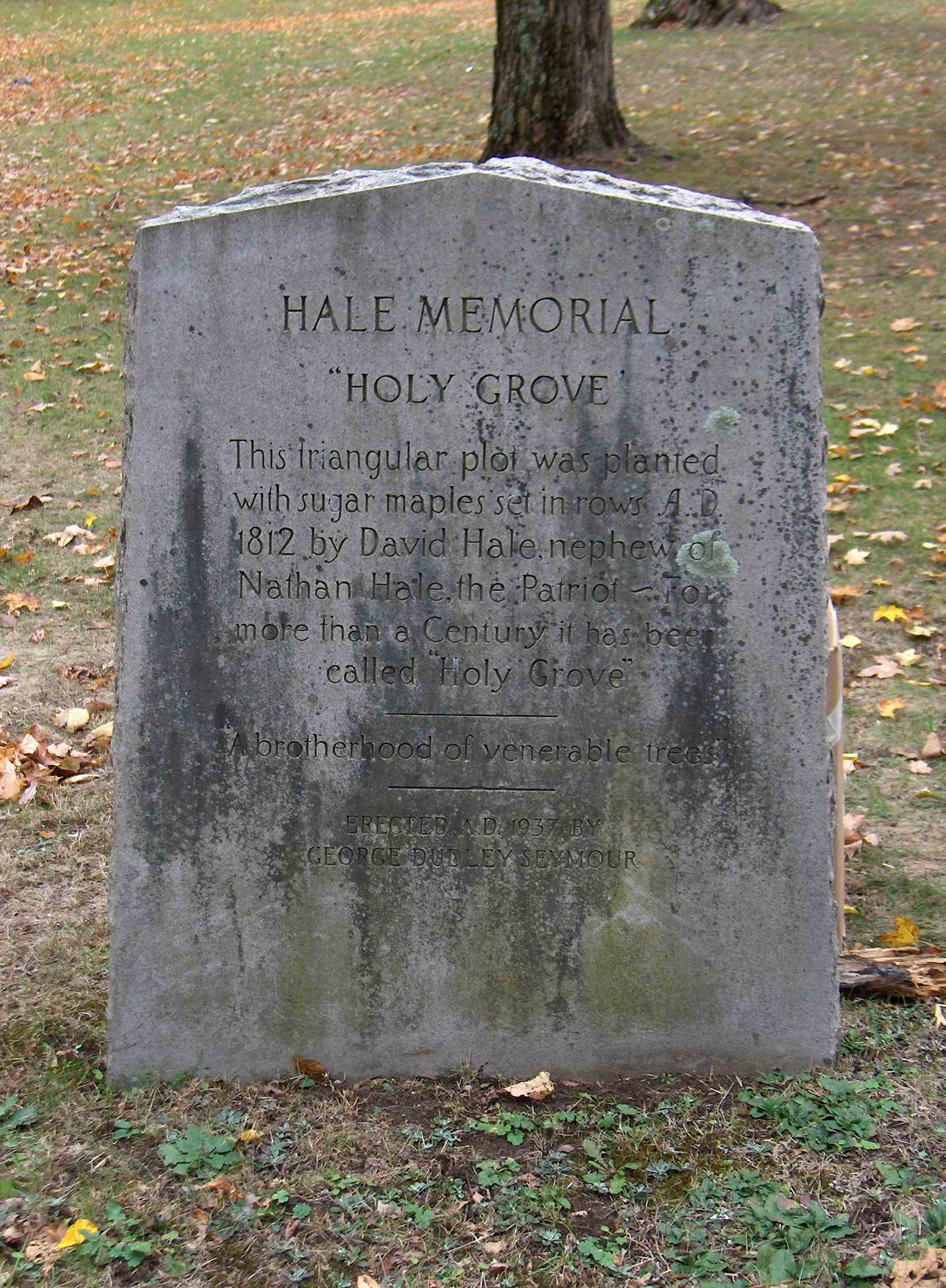 Stone marker at Nathan Hale Homestead noting the memorial planting of sugar maples by David Hale, the nephew of Nathan Hale.